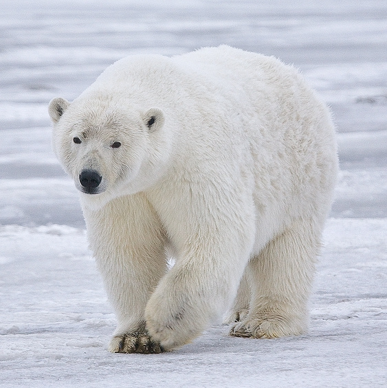 Sow Polar bear (Ursus maritimus) near Kaktovik, Barter Island, Alaska.